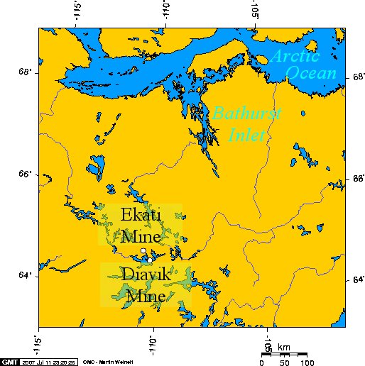 Lambert Projection showing the Ekati and Diavik Diamond Mine, near Barthurst Inlet, Nunavut